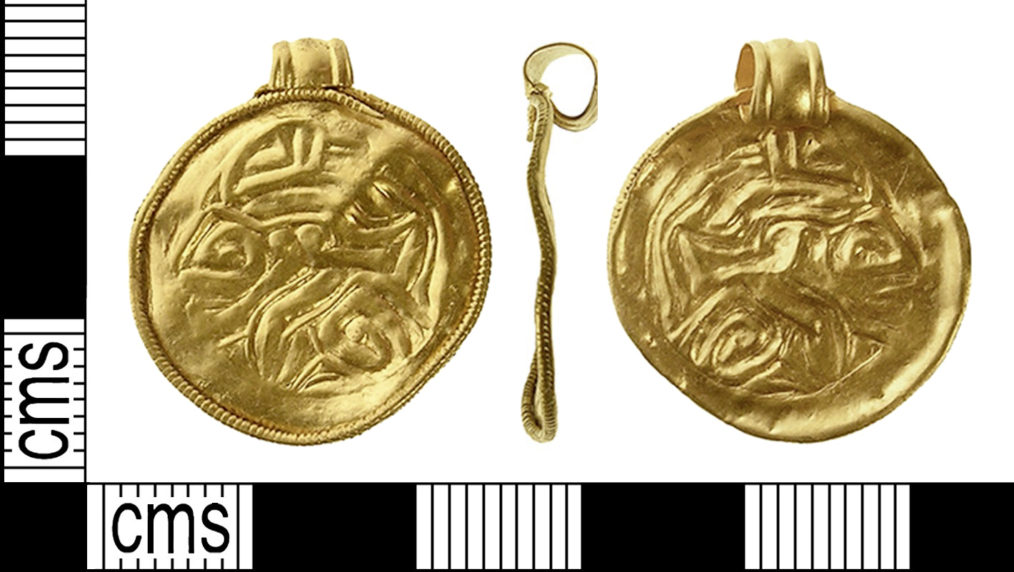 A gold bracteate from Shalfleet Parish, Isle of Wight, dated to c. AD 500 - c. AD 550. This was added from the site called under the name portableantiquities. See Record ID: IOW-125794 for details.